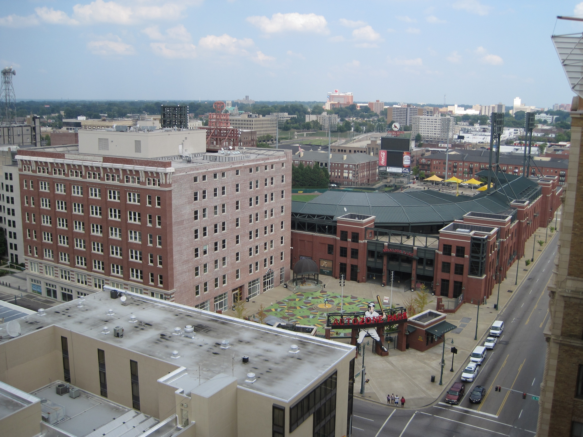 Autozone Park from the roof of the Peabody Hotel in Memphis, Tennessee.